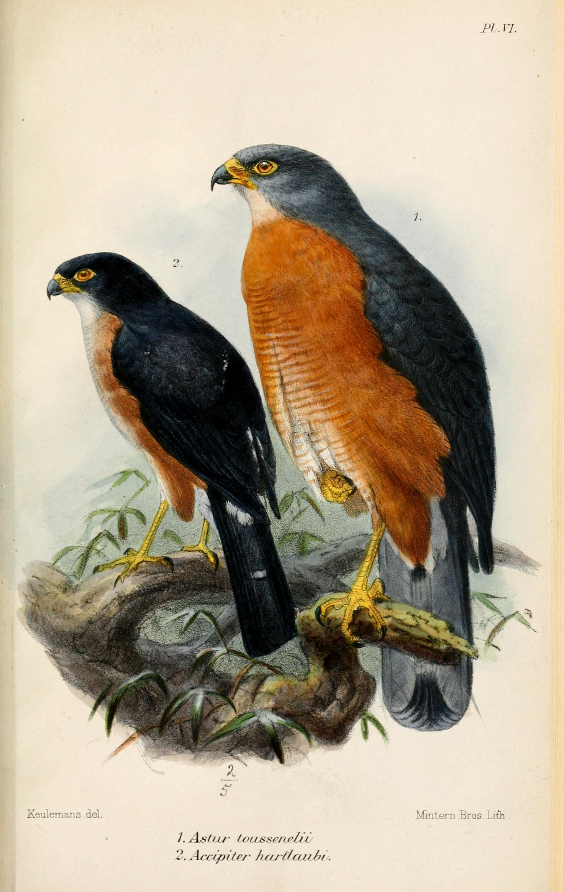 Title: Catalogue of the Birds in the British Museum Year: - 1874 1874 - 1874 (1870s) Authors: British Museum (Natural History). Department of Zoology. (Birds) Subjects: Publisher: London Text Appearing Before Image: PJ .ri. Text Appearing After Image: Xeulernans del. /. A.stut â tousscpphi 2. Arripitpr hfcrdauhi. Mintern Bros,Lith.